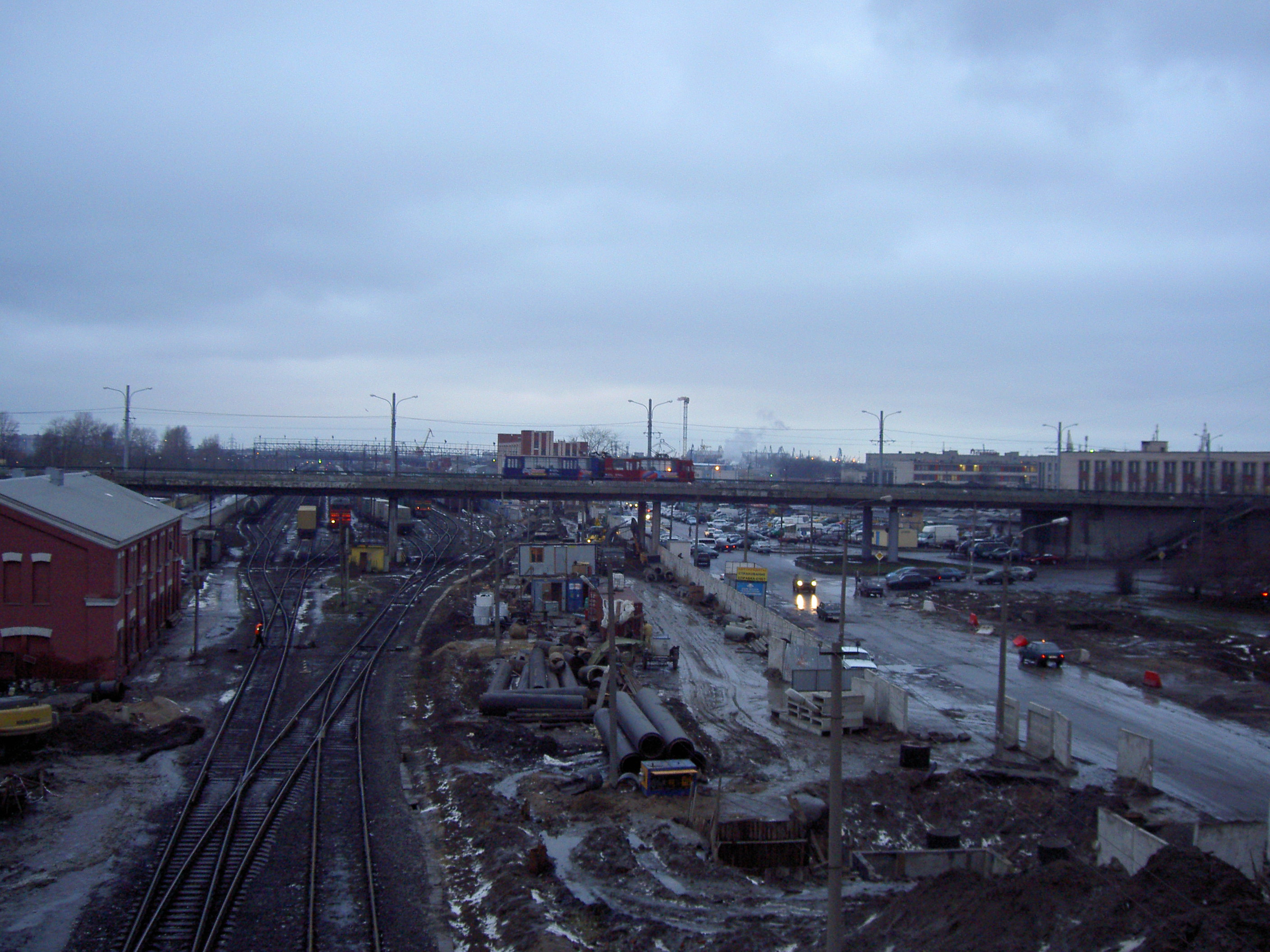 Tram viaduct at Avtovo